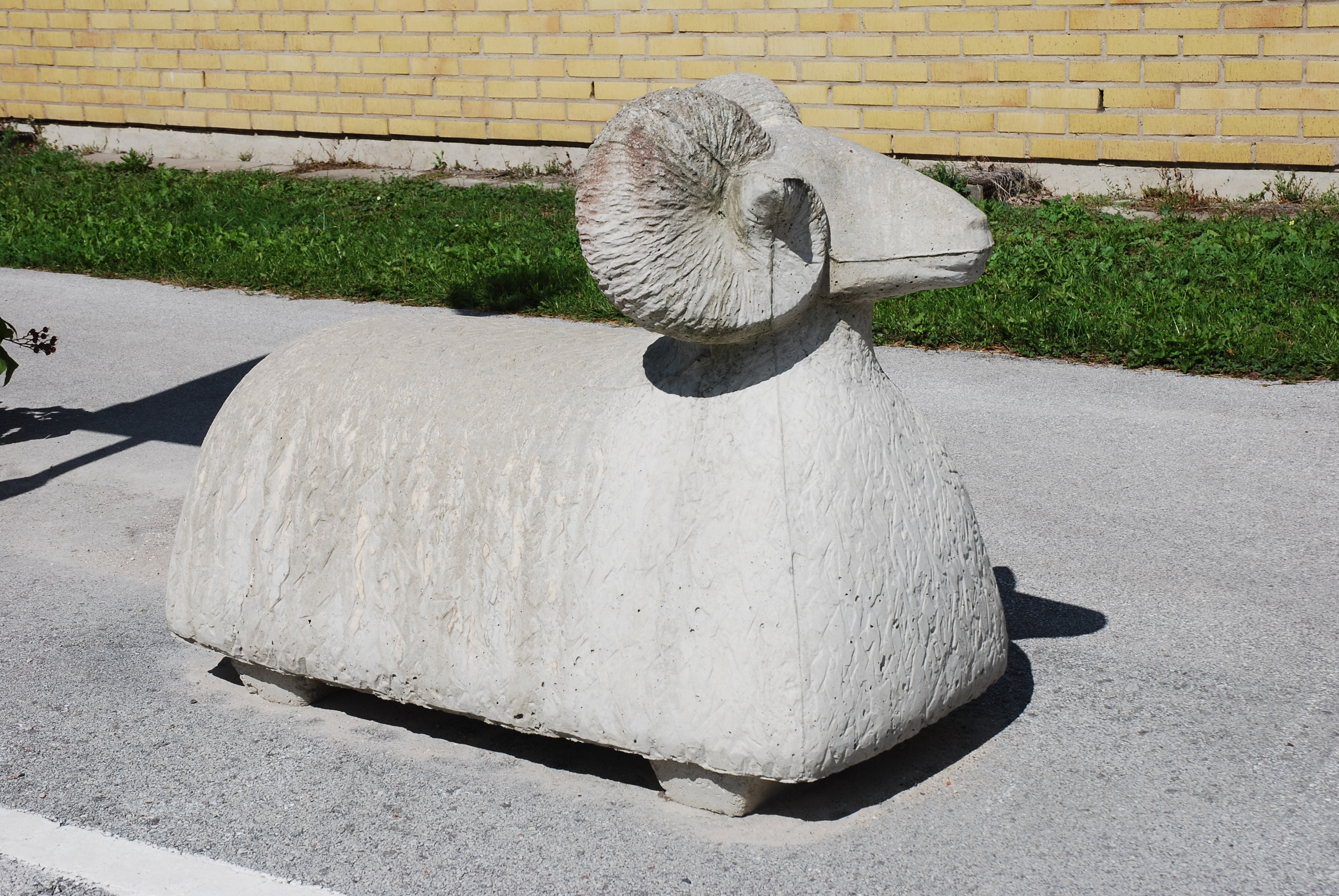 Concrete traffic blocking device, Baggen, by sculptor Anders Åfelt, Slite at Gotland, Sweden